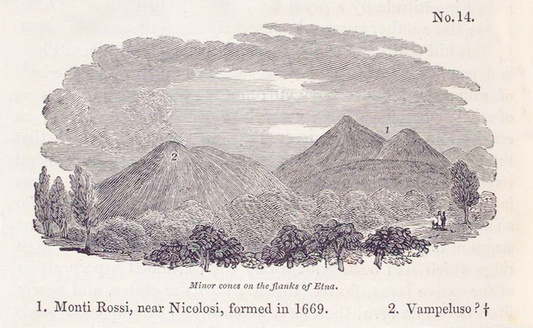 Minor cones on the flanks of Etna : 1. Monti Rossi, near Nicolosi, formed in 1669 ; 2. Vampeluso ? (Principles of geology; being an attempt to explain the former changes of the earth's surface, by reference to causes now in operation)